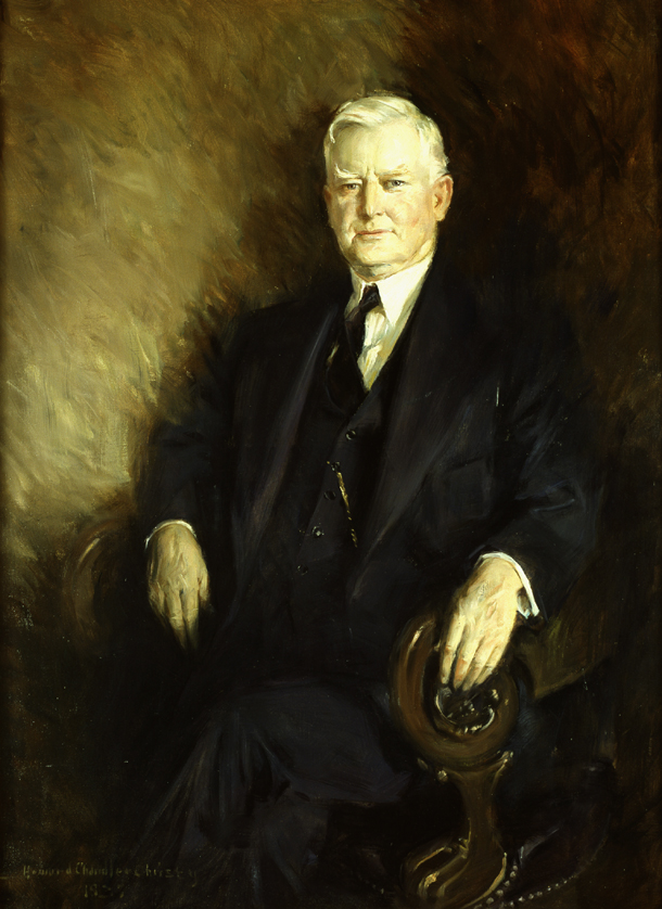 John Nance Garner by Howard Chandler Christy (1873 - 1952) Oil on canvas, 1937 Sight measurement Height: 45.63 inches (115.9 cm) Width: 38.75 inches (98.4 cm) Signature (lower left corner): Howard Chandler Christy / 1937 Cat. no. 31.00007.000 source